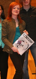 American guitarist and singer Marcie Bolen, of the bands The Von Bondies and Slumber Party.